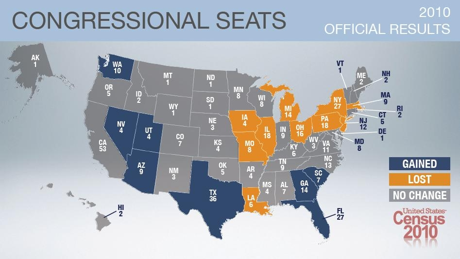 United States Congressional Apportionment 2012-2022